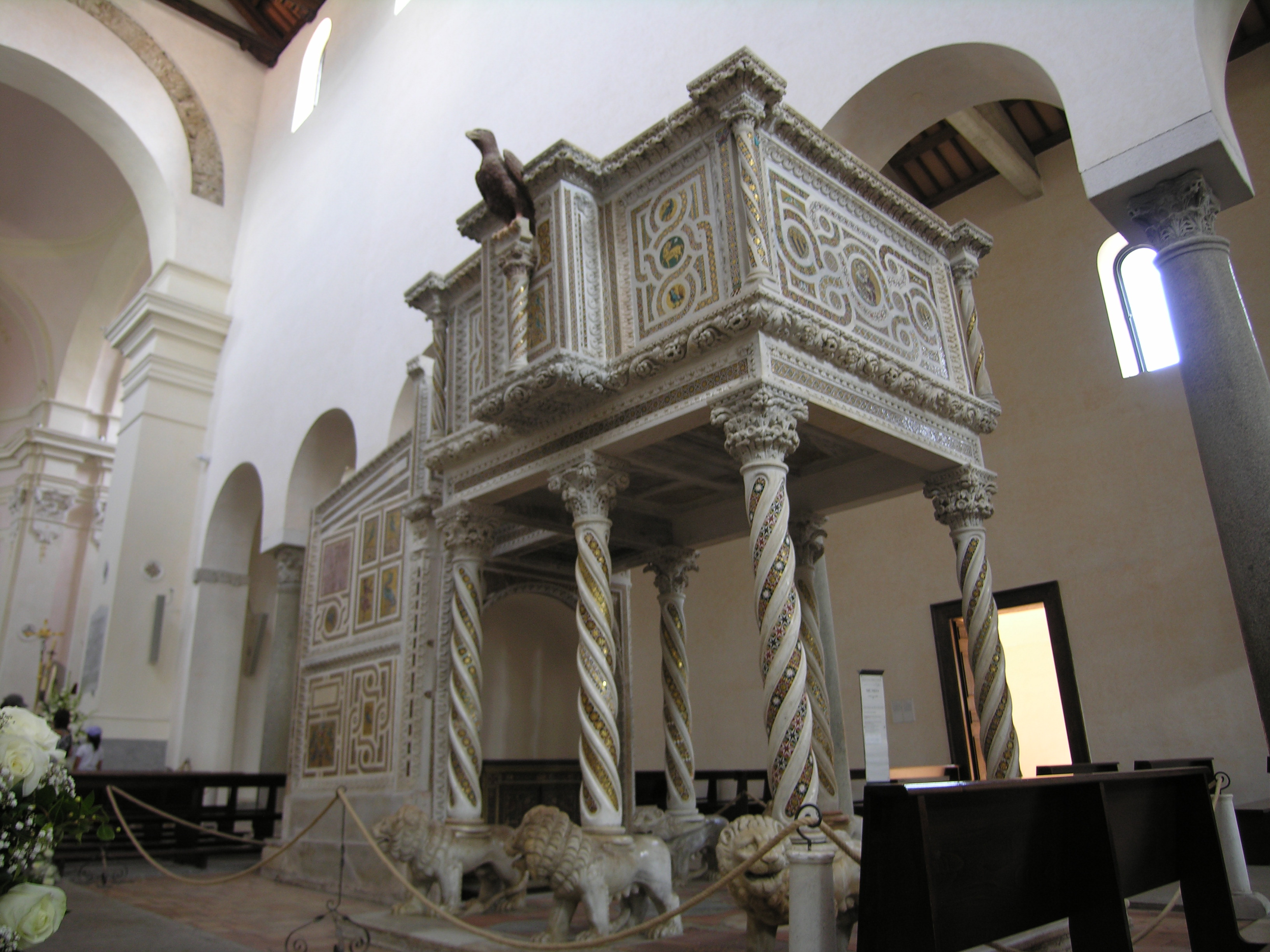 Inside of the Duomo (Cathedral) of Ravello. The central nave contains the "pulpit of the Gospels", on the right of the central nave, created in 1272 by Nicolò di Bartolomeo from Foggia.